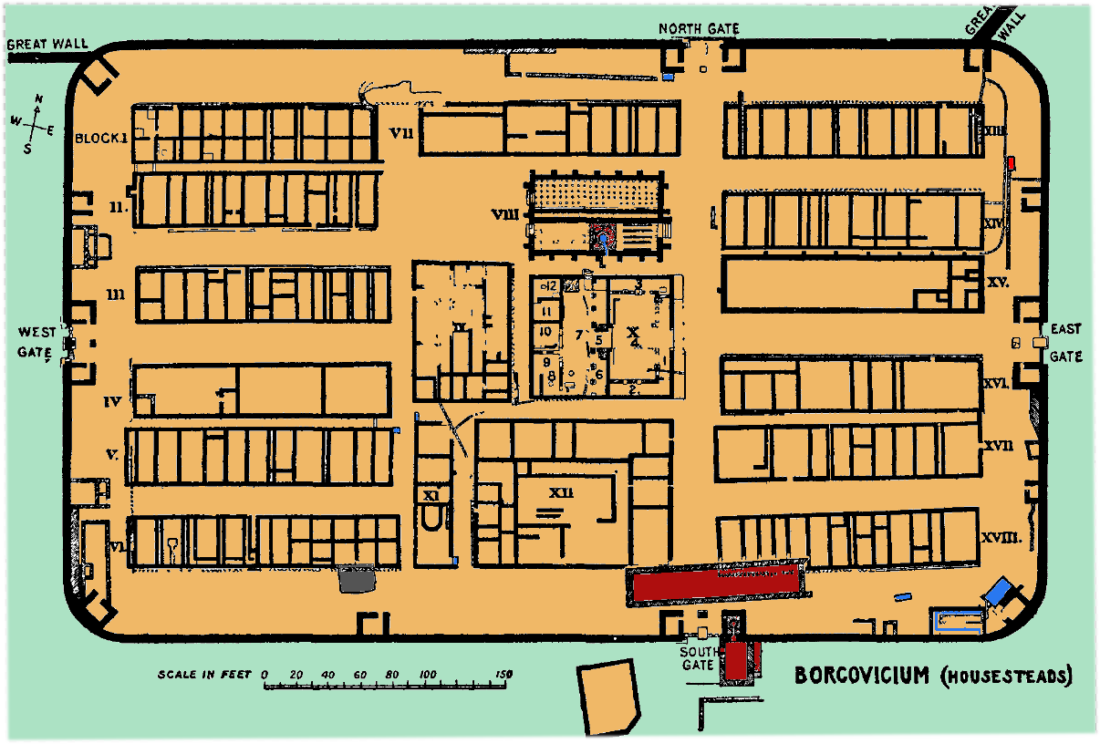 Illustration from 1911 Encyclopædia Britannica. Original Caption: Fig. 1. Plan of Housesteads (Borcovicium), Hadrians Wall.